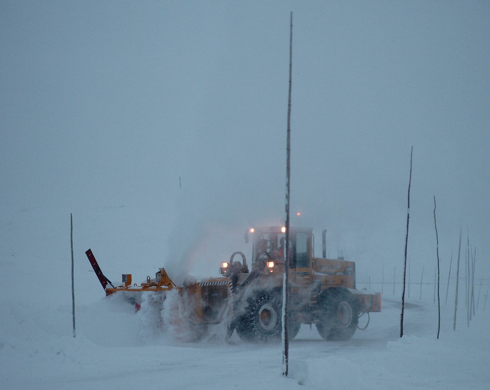 Snow blower with wheel loader working in norway at hardangervidda (RV 7)